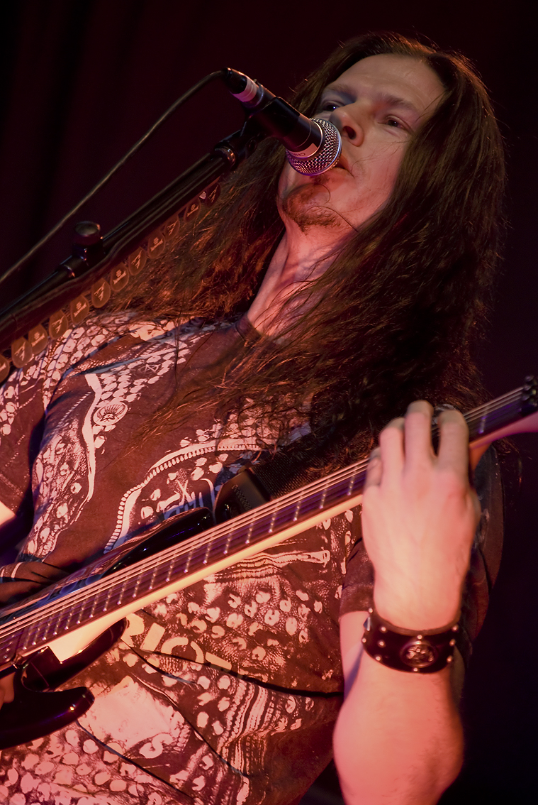 Chris Broderick from the heavy/power metal band Megadeth live at a concert at the Priest Fest in March 2009.